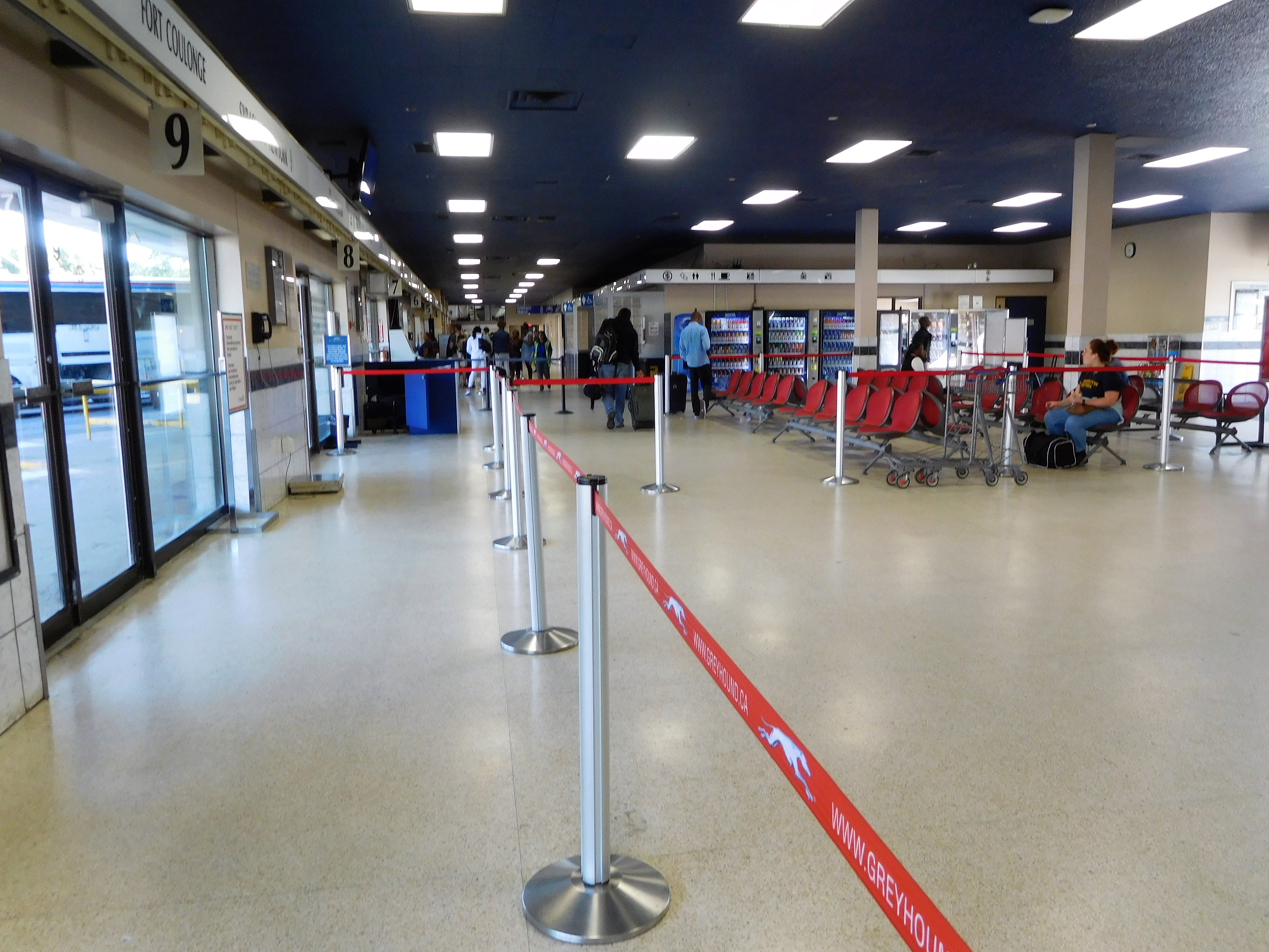 Ottawa Central Station, 265 Catherine Street, Ottawa